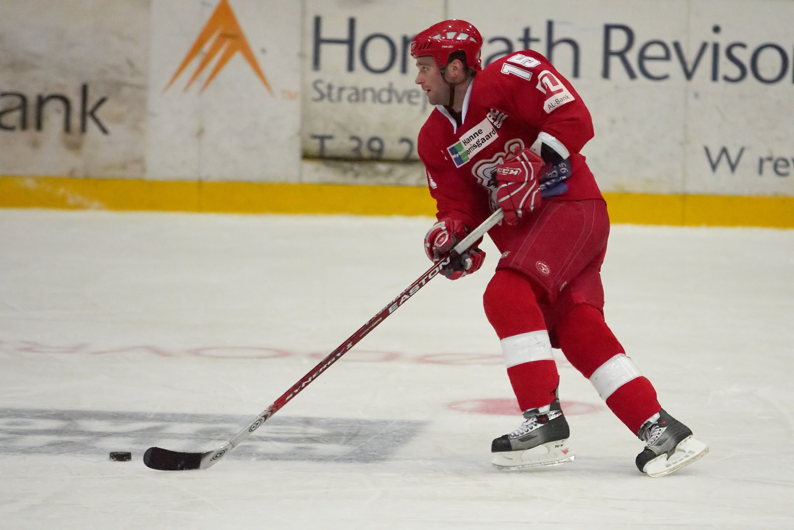 Mr. Preston Mizzi in action